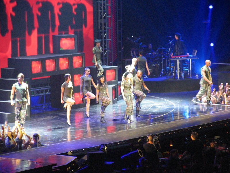 Madonna Concert